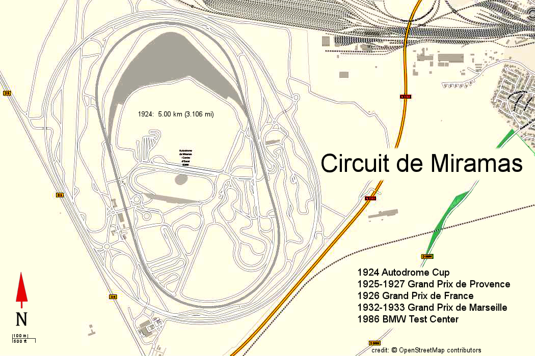 Circuit de Miramas (Open Street Map)